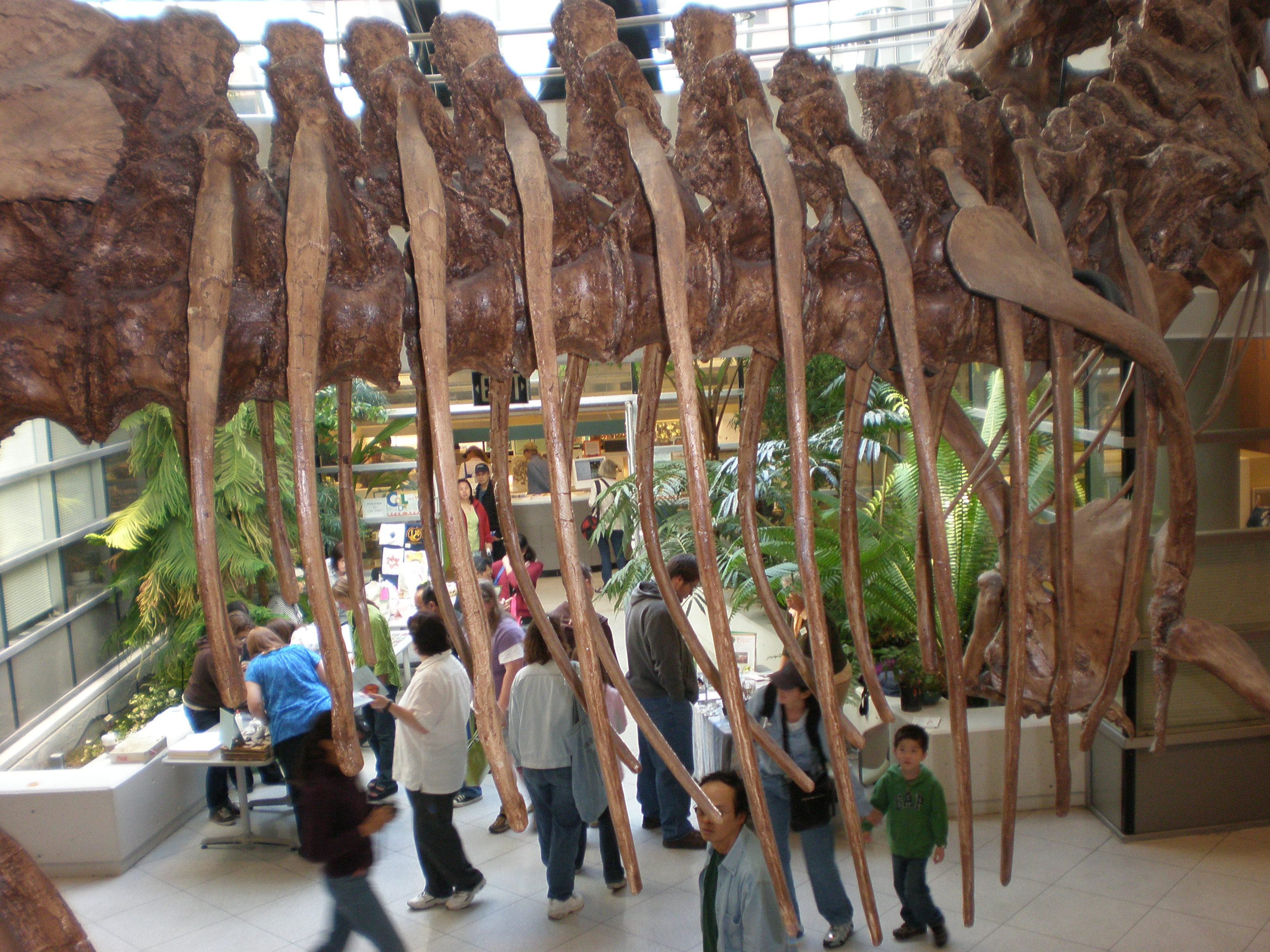 The rib cage of a cast of the "Wankel T. rex", a 90% complete Tyrannosaurus skeleton found by Kathy Wankel in eastern Montana in 1988. The cast of the skeleton is in the collection of the University of California Museum of Paleontology and on display at the Valley Life Sciences Building on the UC Berkeley campus in Berkeley, California.